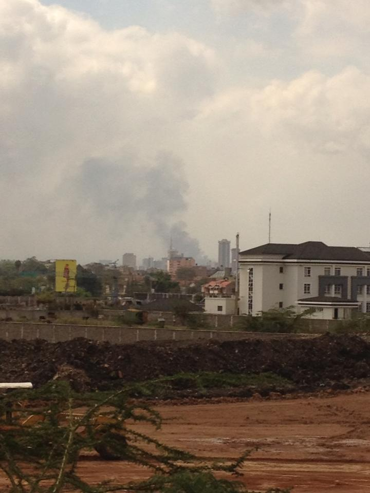 Smoke rising from the Westgate Mall area in Nairobi, Kenya, after the September 2013 attacks and rescue efforts